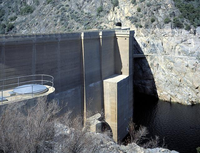 O'Shaughnessy Dam across Hetch Hetchy Valley, Yosemite National Park Photo by Richard E. Ellis